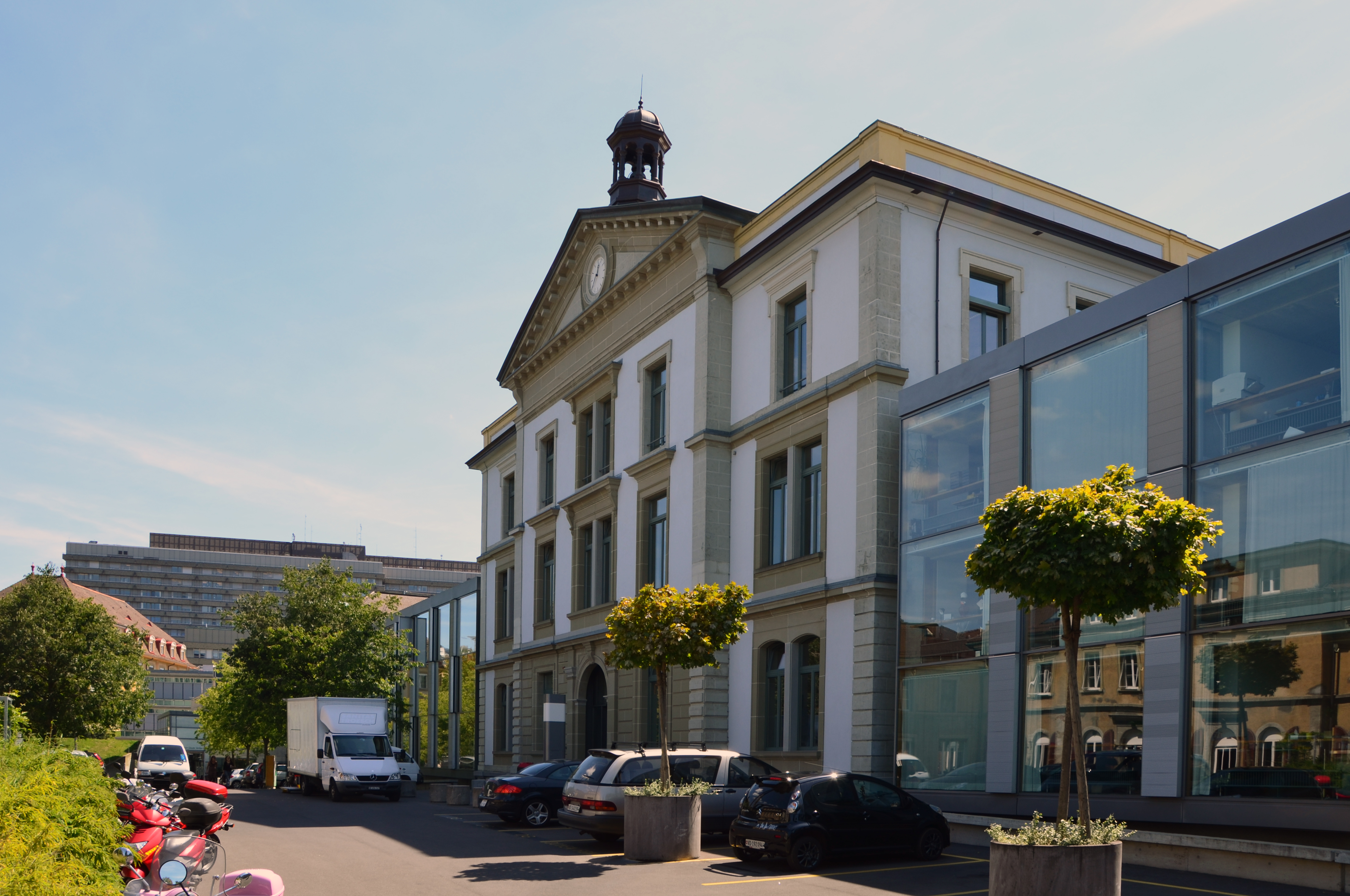 The Cantonal Hospital of Lausanne, which was replaced in 1982 by the Vaudois University Hospital Center, whose main building is visible in the background on the left.